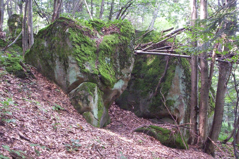 Spalona Góra (682m) - mountain in eastern Beskid Niski, Carpathian Mountains, Poland. Rocks (sandstone) on the peak.